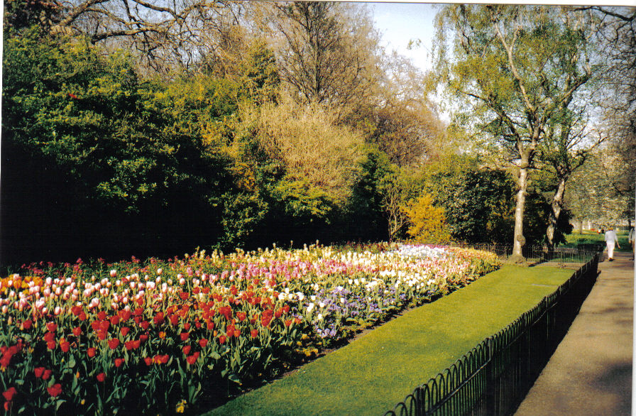 Spring flowers in London's St. James' Park. (C) Gerry Lynch, 2004.